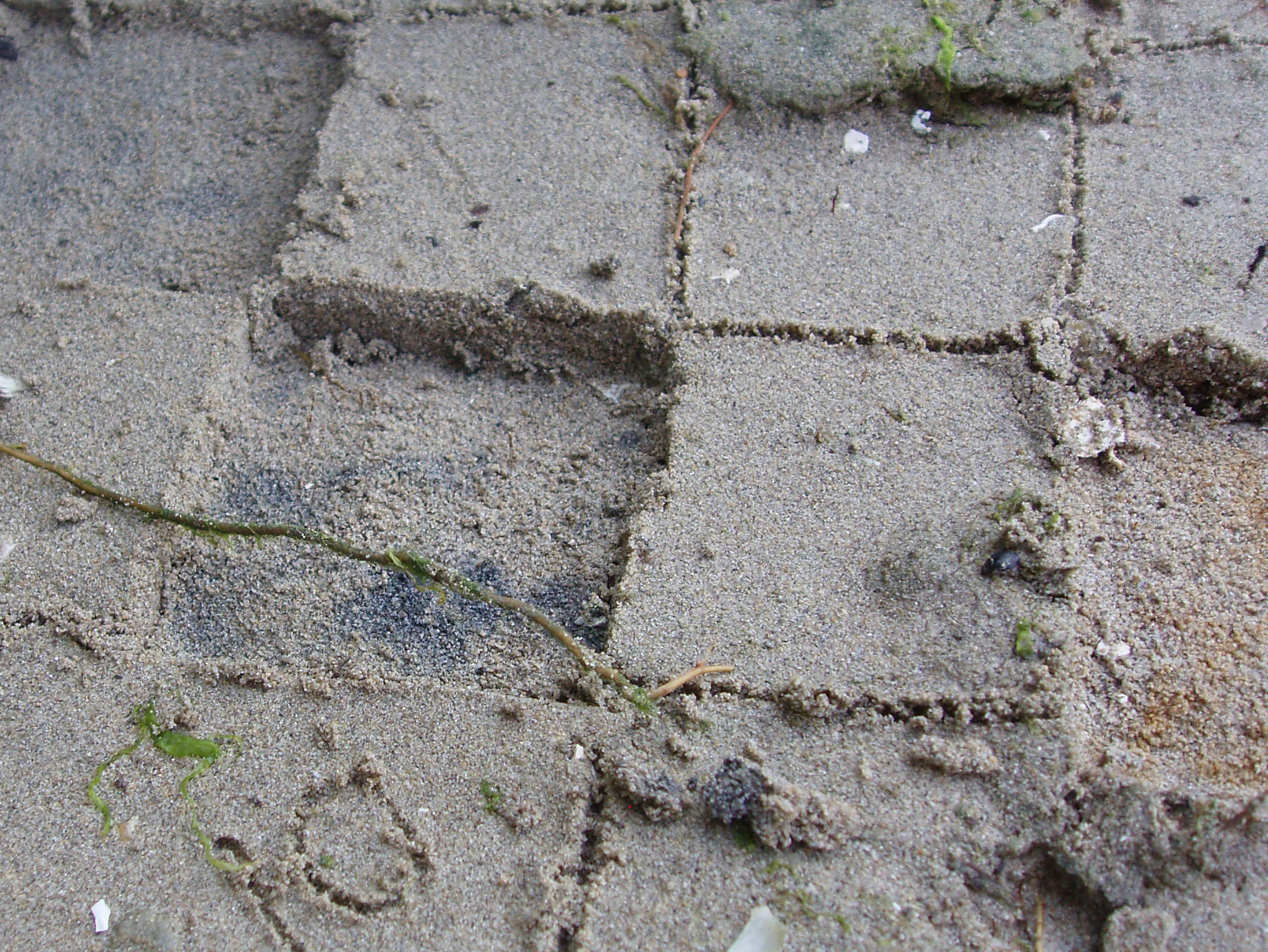 Sampling a sandy habitat in Lignano Sabbiadoro, at the Pump Station. The uppermost layer of sand (5-10 mm) in 5 x 5 cm squares has been removed and collected to extract microturbellarians, especifically Macrostomum lignano. Note the dark anoxic layer in one of the squares.